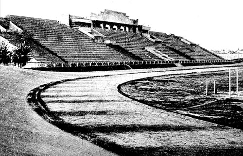 West Stands of Metallist Stadium, Kharkov, Ukraine. Photo circa 1930.